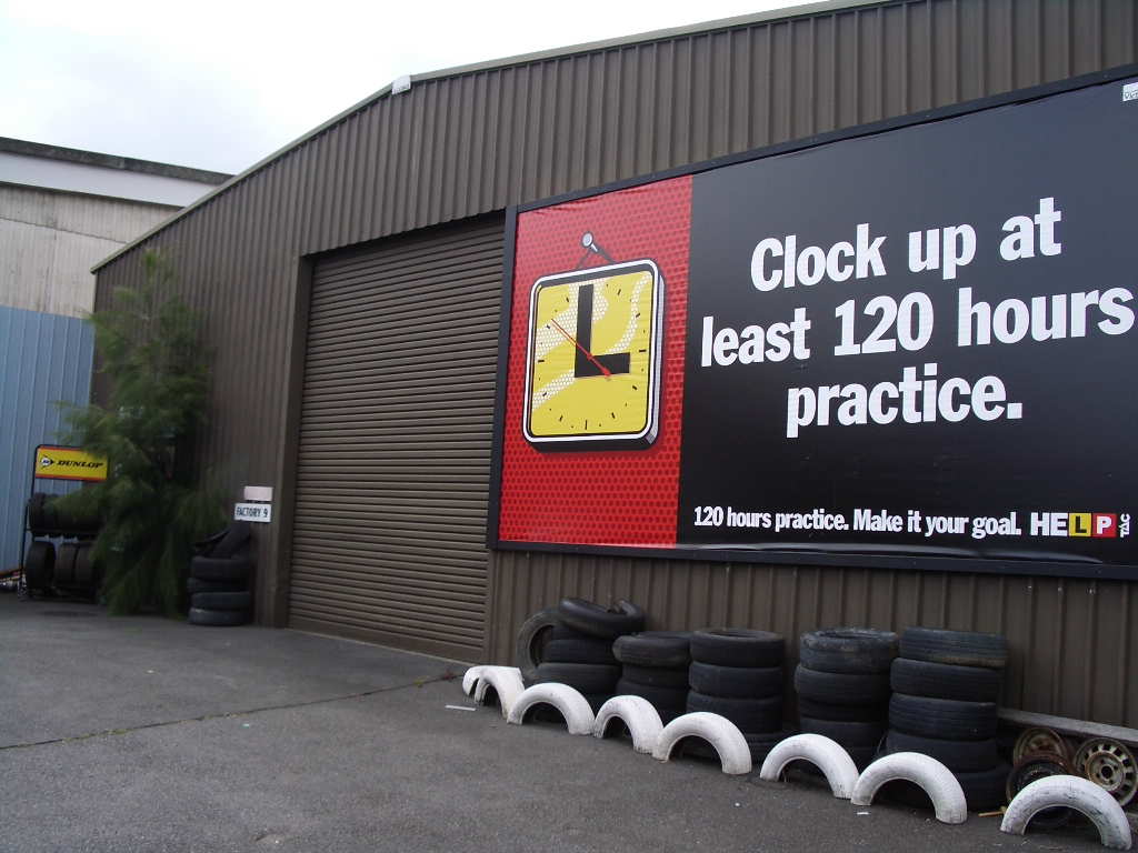 The Carpenter's Mechanics set from the Australian soap opera Neighbours.